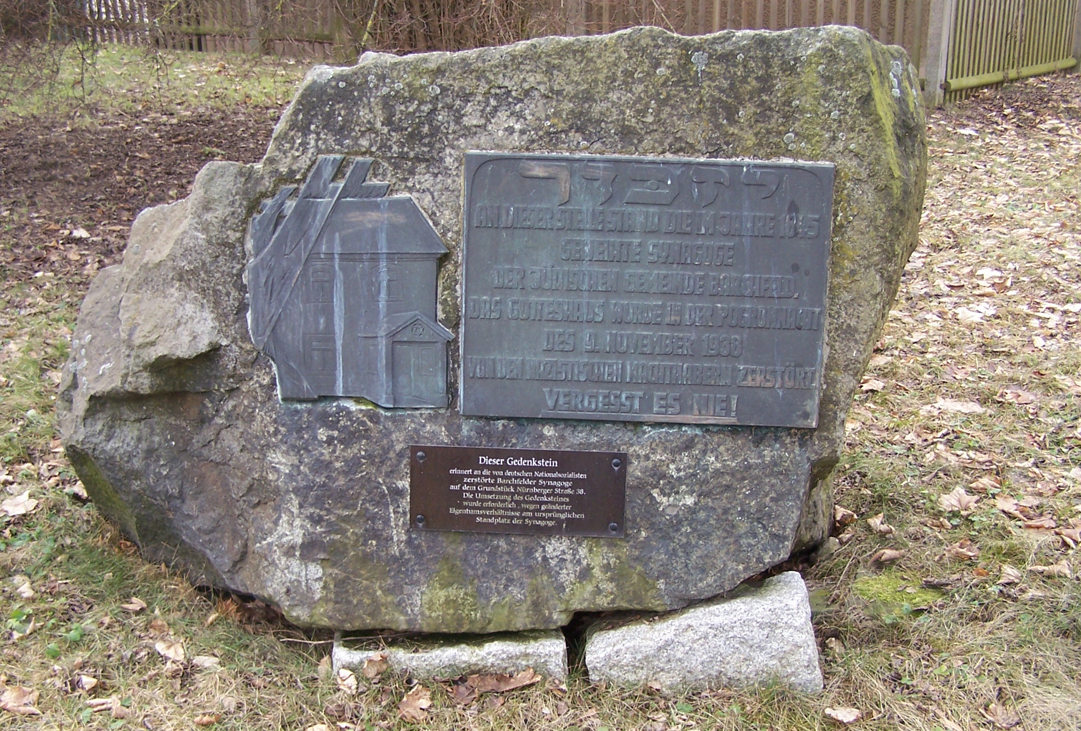 A memorial at the jewish cemetery in Barchfeld.